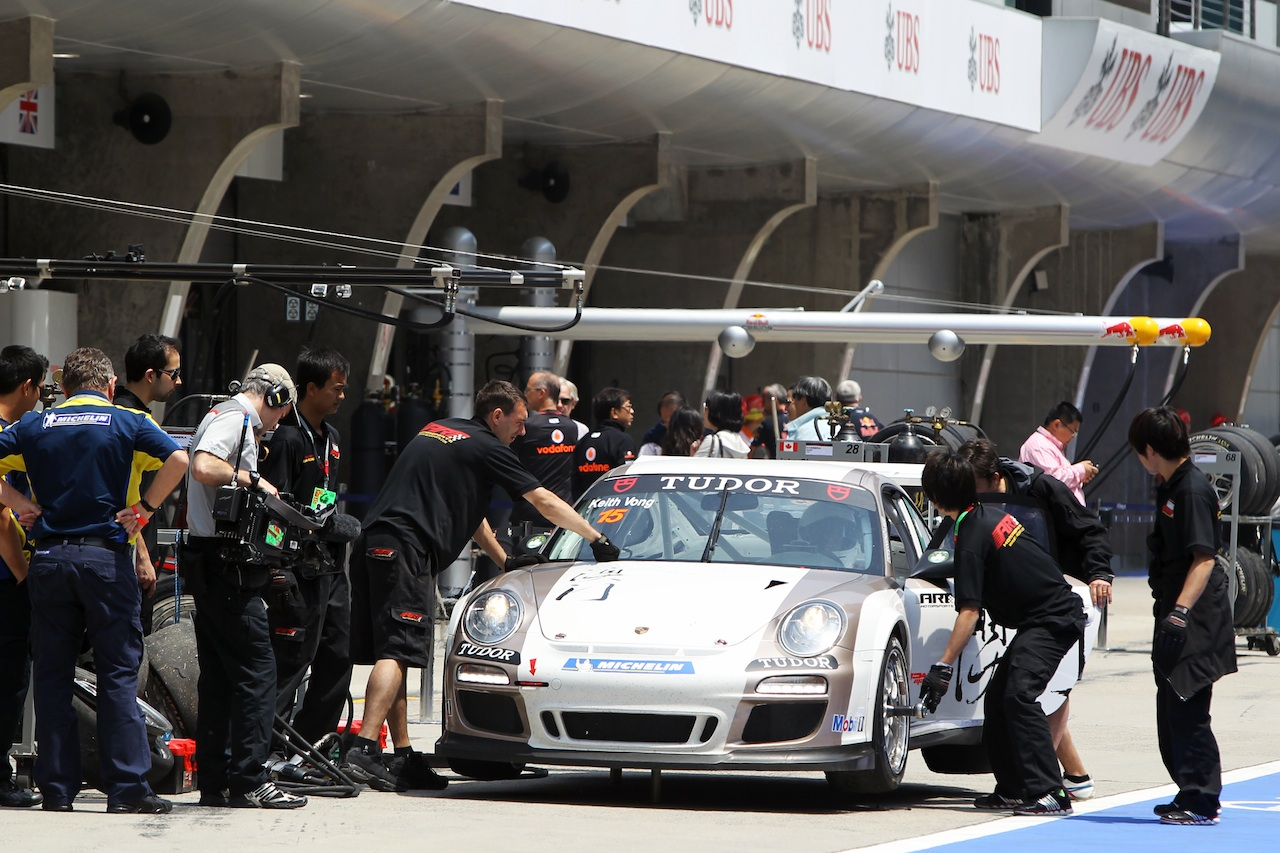 Carerra Cup Asia in Shanghai with the F1